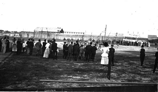 Florida vs. Riverside Athletic Club on a baseball park in South Jacksonville